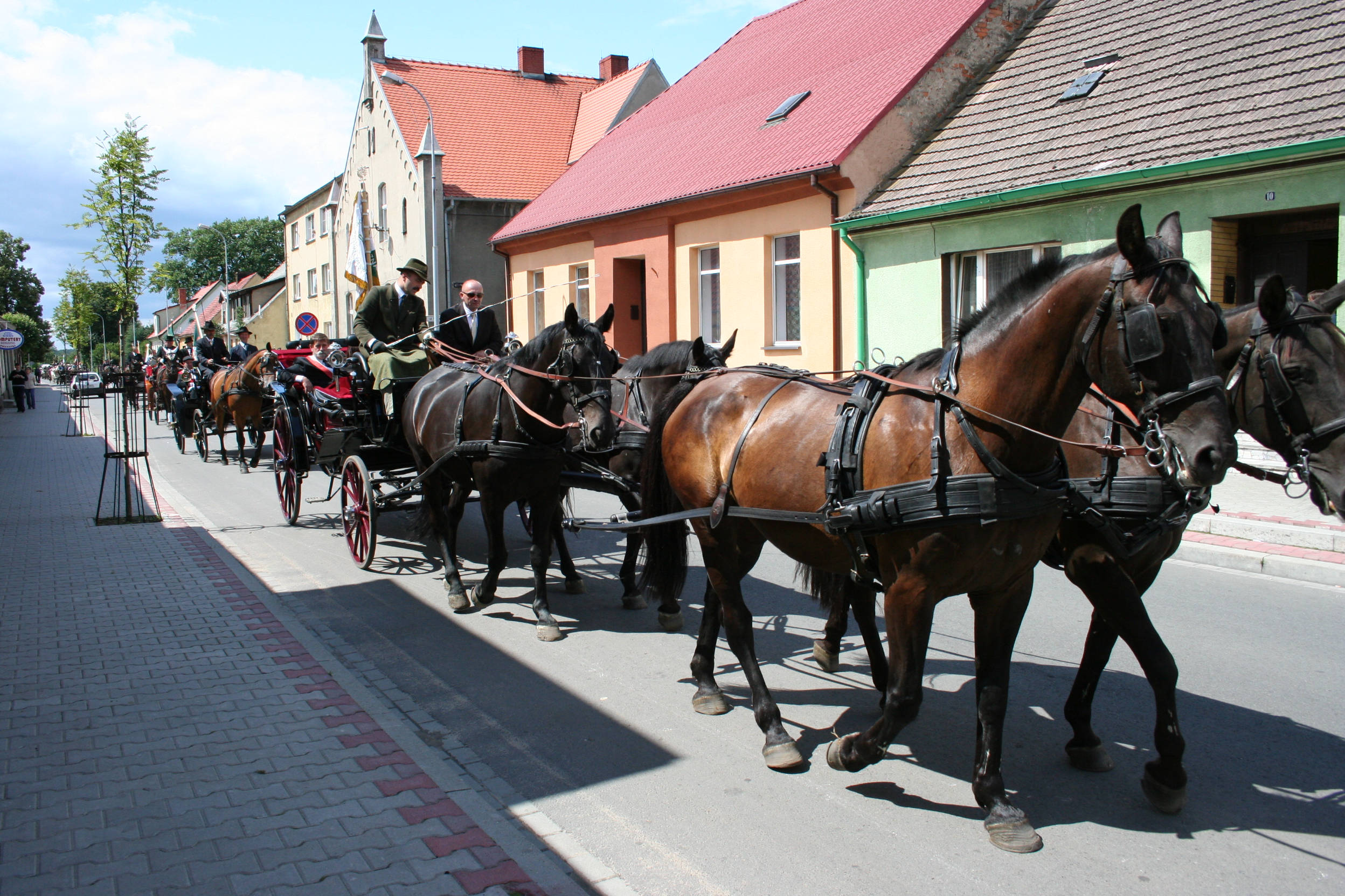 The Sieraków Stud - 180 anniversary